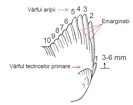 Phylloscopus trochilus. Wing formula